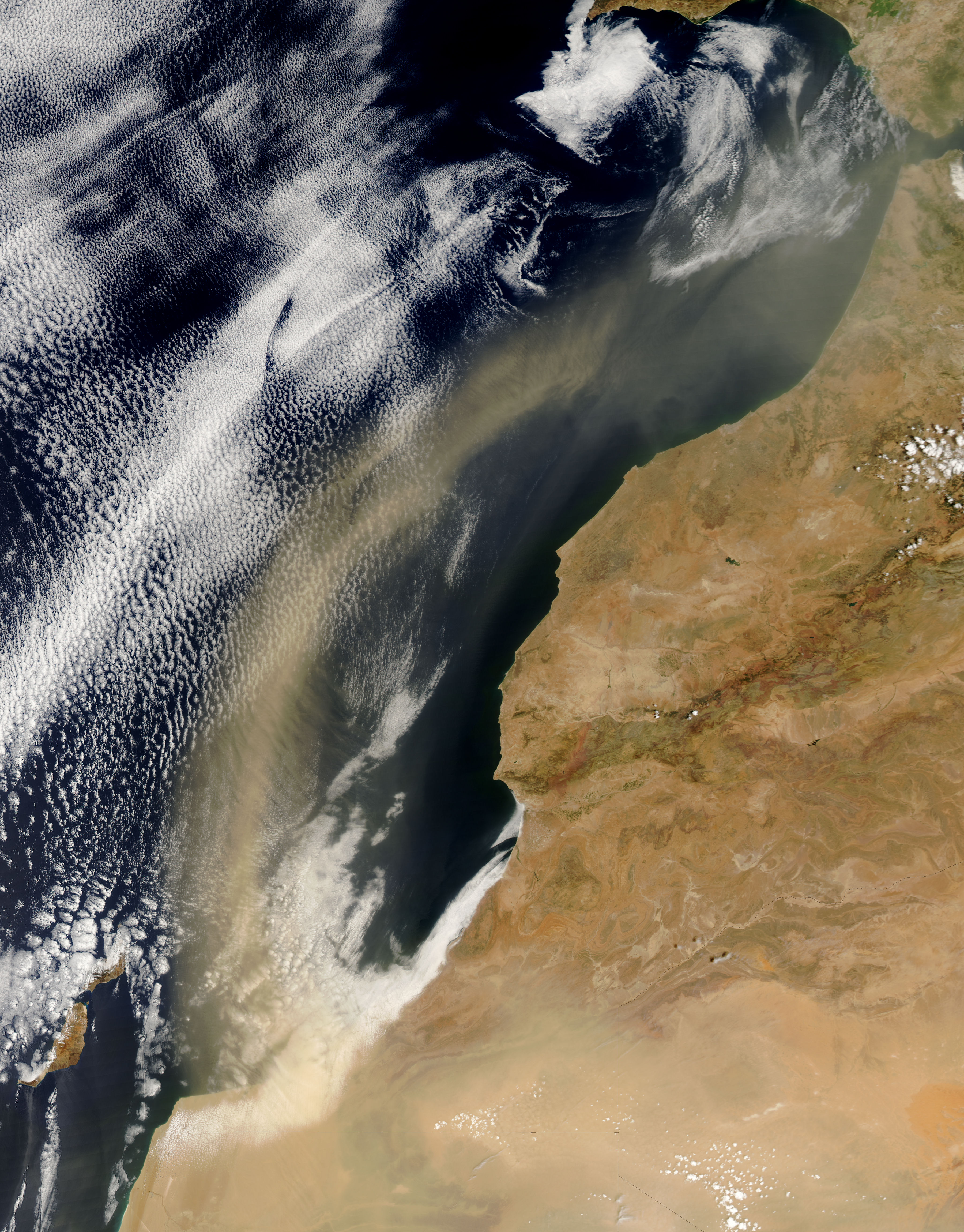 View of a highly concentrated layer of atmospheric dust from Africa over the Atlantic ocean.